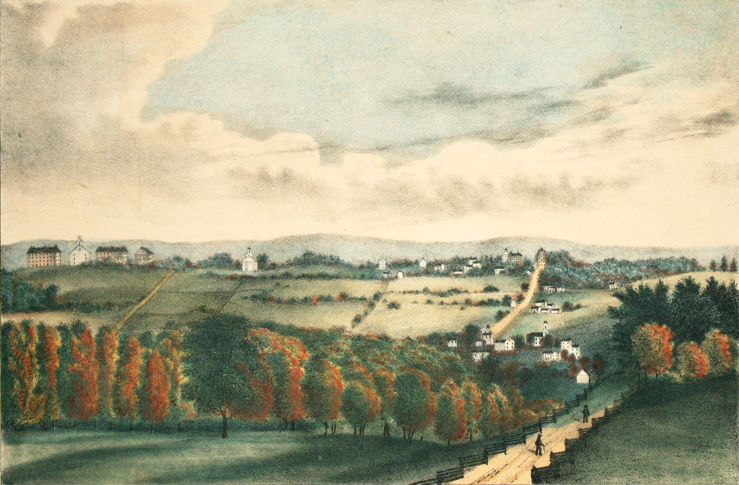 Autumnal Scenery, lithograph after Orra White Hitchcock